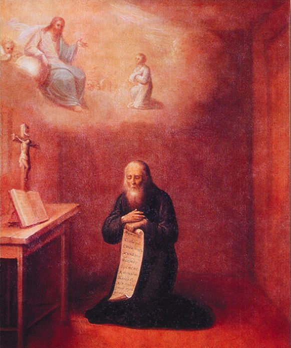 Vitalis of Alexandria